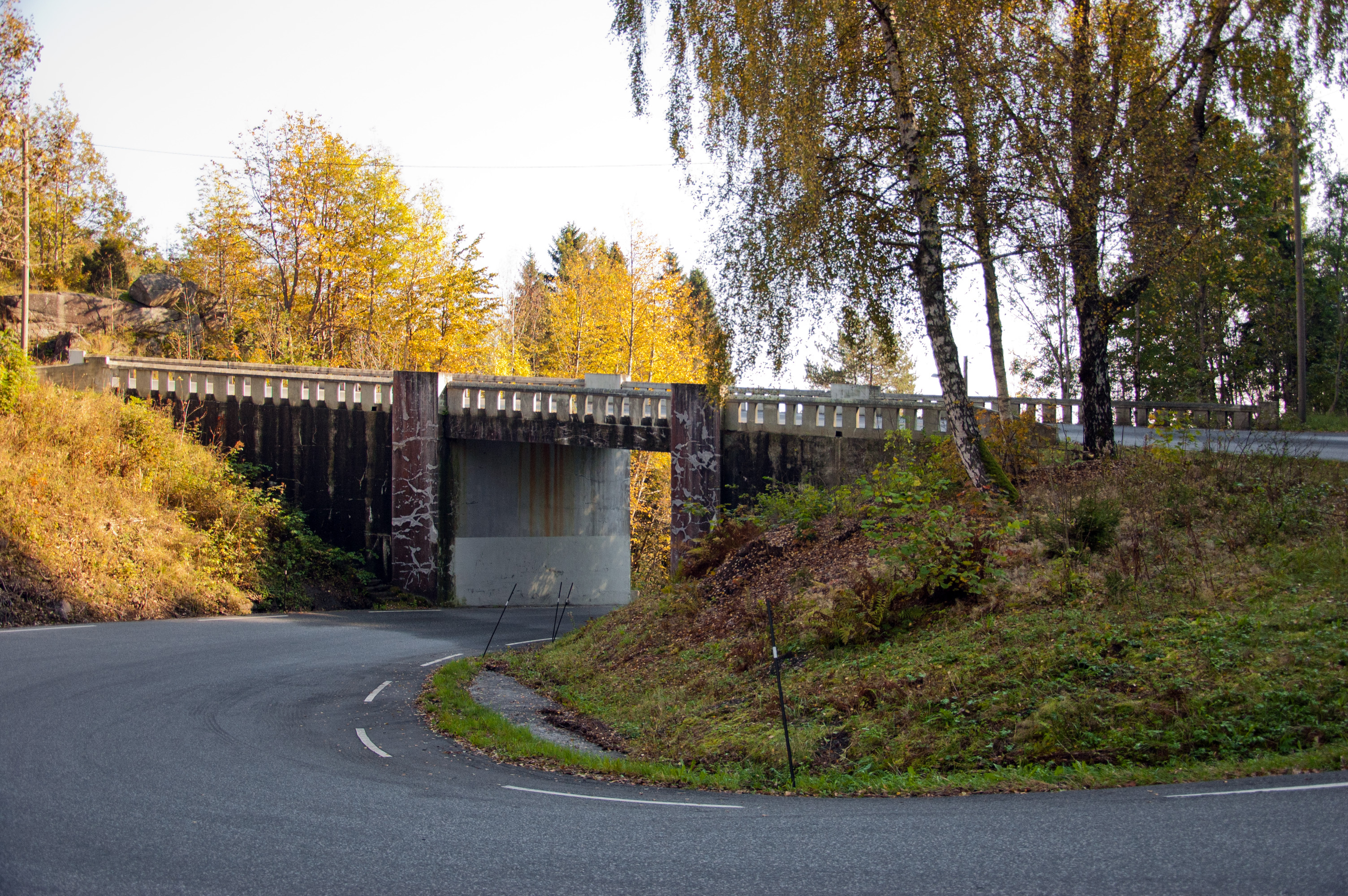 Korketrekkeren ("The Corkscrew"), a road bridge in Langangen, Porsgrunn, Telemark, Norway, where the road goes in a loop over itself.